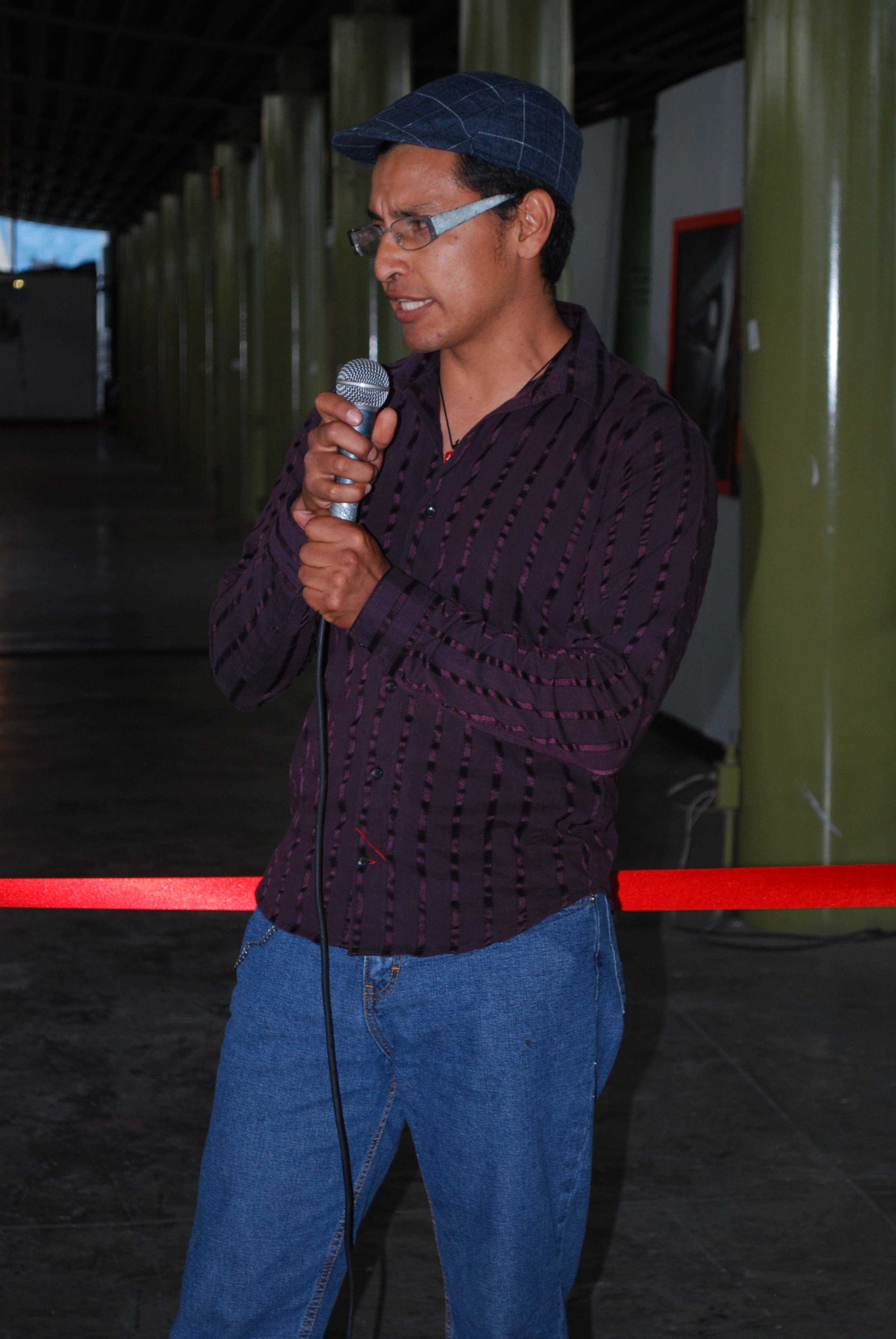 Arturo Lemus Beltrán at the opening of the Nuevo Realismo Latinoamericano exhibit at the Fábrica de Artes y Oficios de Oriente (FARO) in Iztapalapa, Mexico City